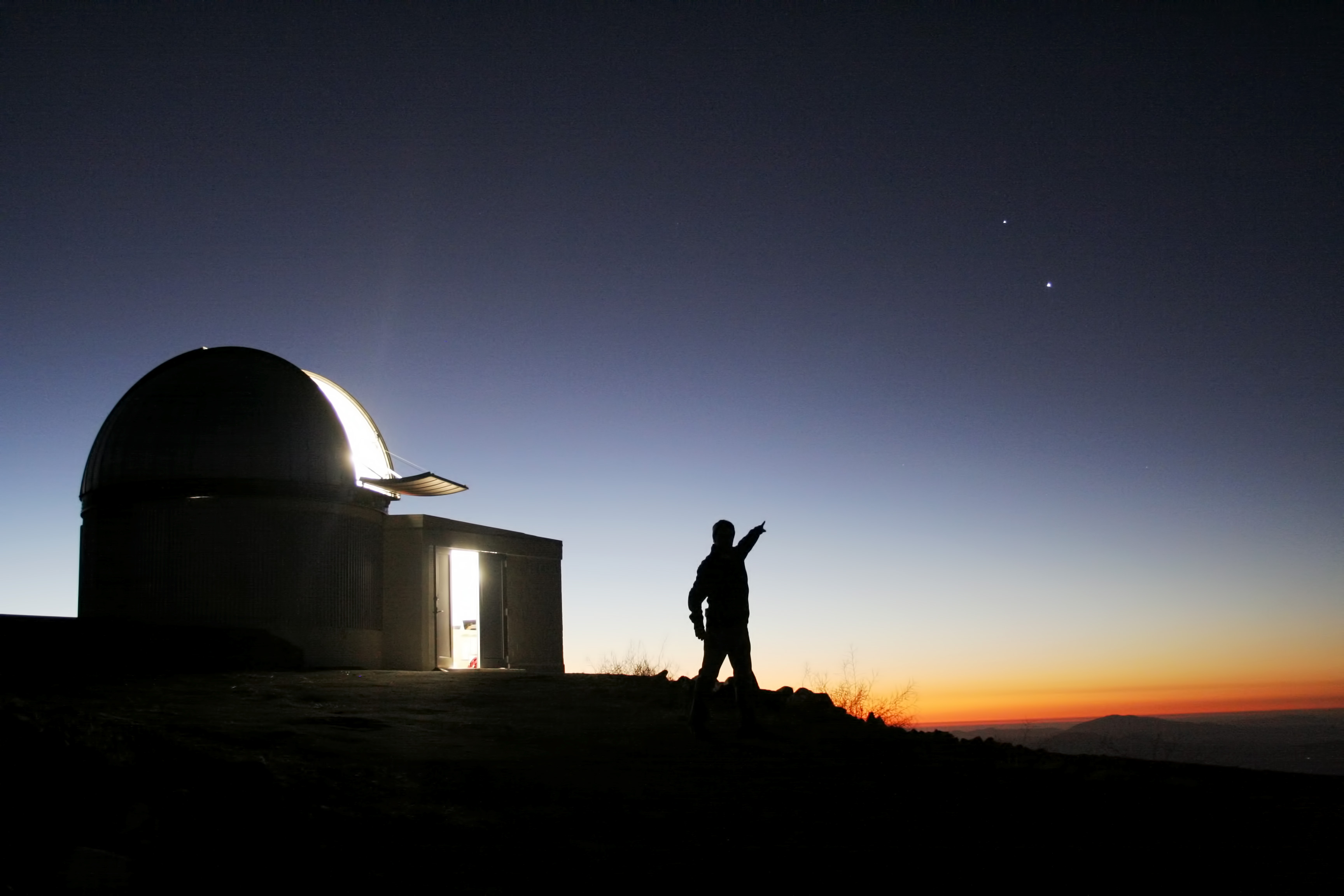 The starry night invites to go out and look to the stars, even if you have professional telescopes at hand. The dome in the image belongs to the TRAPPIST robotic telescope, that had first light at ESO’s La Silla Observatory, in Chile, in June 2010. TRAPPIST stands for TRAnsiting Planets and PlanetesImals Small Telescope–South.